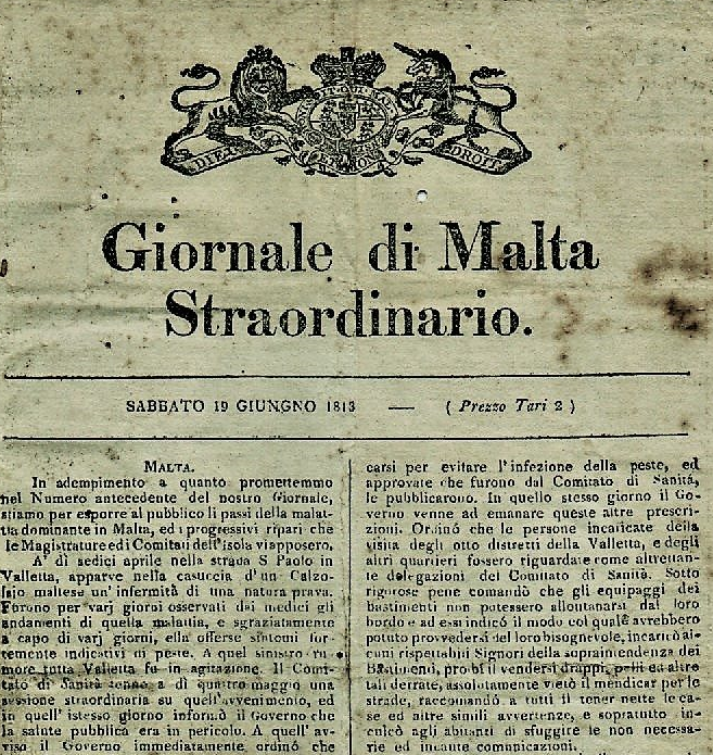 "Giornale Di Malta. Straordinario. " (Malta Gazzette. Breaking news). 19th June 1813. The Plague arrives in Malta.